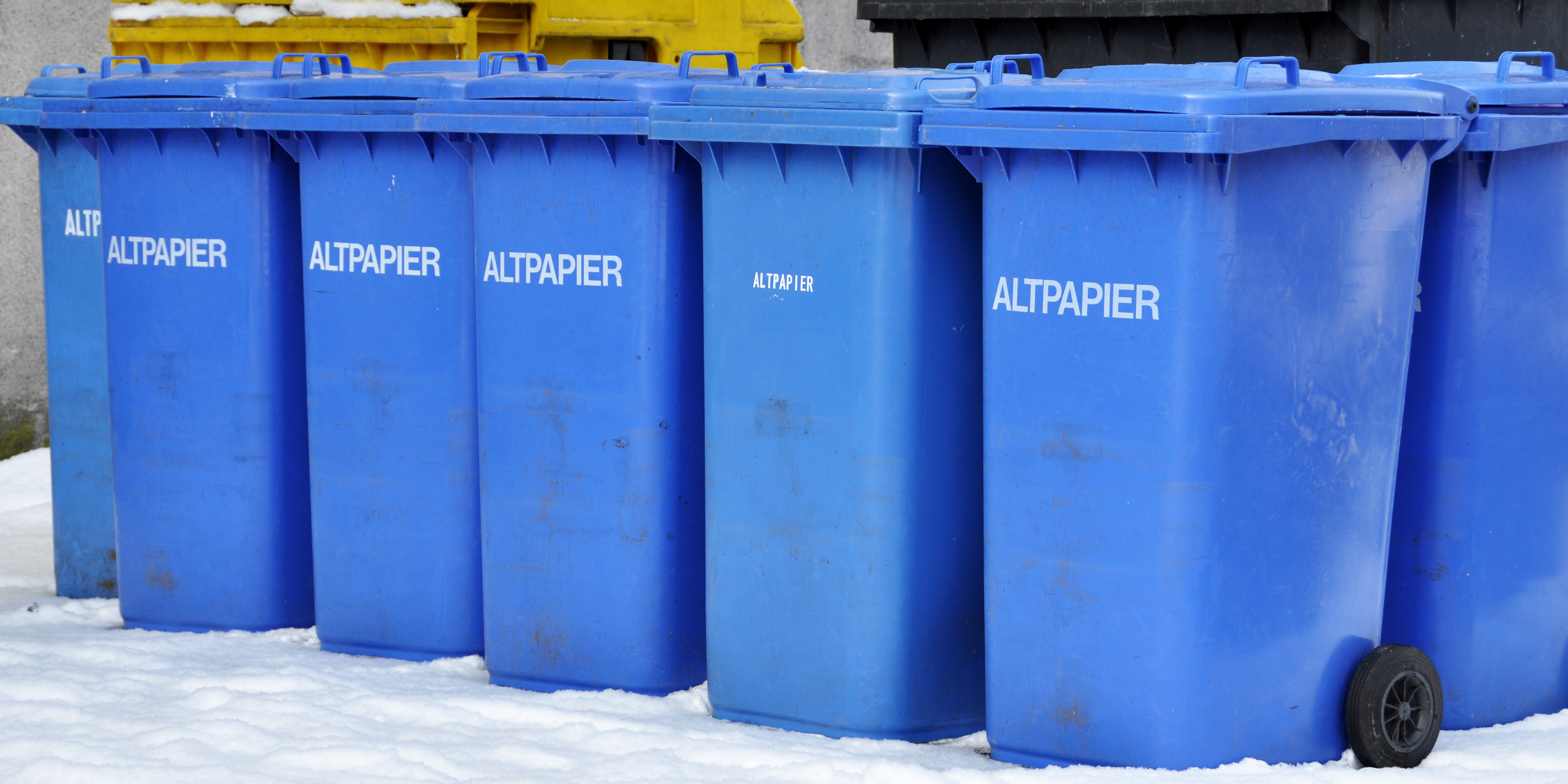 trash bins for used paper